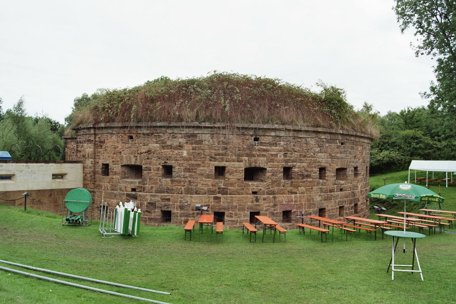 The réduit of the former Fort C in Minden, Germany.